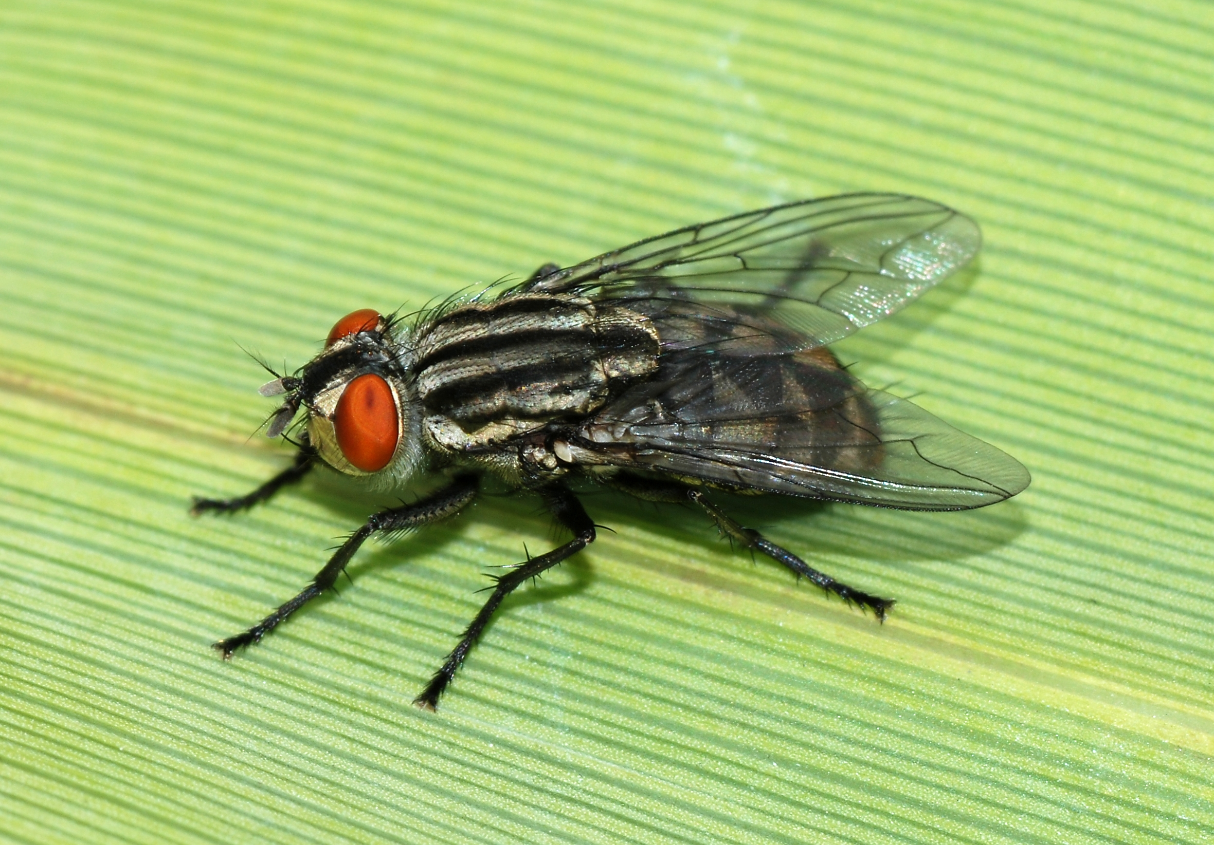 A female fly (Sarcophaga sp.)